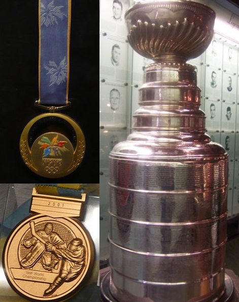 The three components of the Triple Gold Club: (clockwise from top left) Olympic gold (the pictured medal is from the 1998 Winter Olympics), the Stanley Cup and World Championship gold (the pictured medal is from the 2001 tournament). All three on display at the Hockey Hall of Fame in Toronto, Canada.